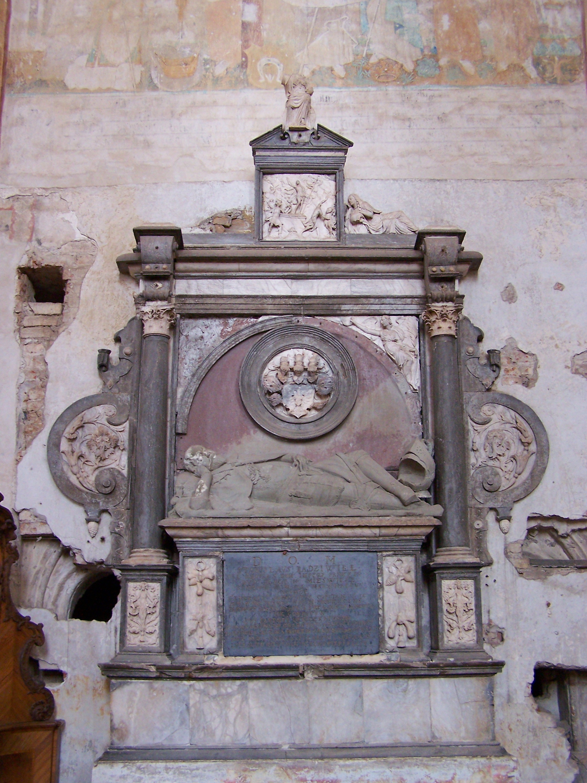 Tombstone for Stanisław Radziwiłł (died in 1599) created by Wilhelm van den Blocke (Danzig, 1618-1623) in church of Saint Francis of Assisi and Saint Bernardino in Vilnius.